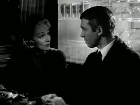 Cropped screenshot of Marlene Dietrich and James Stewart from the trailer for the film No Highway in the Sky.